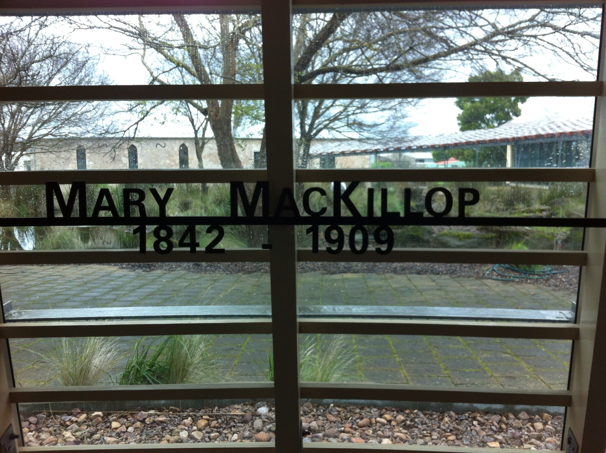 Dates for Mary MacKillop, Shrine at Penola, South Australia